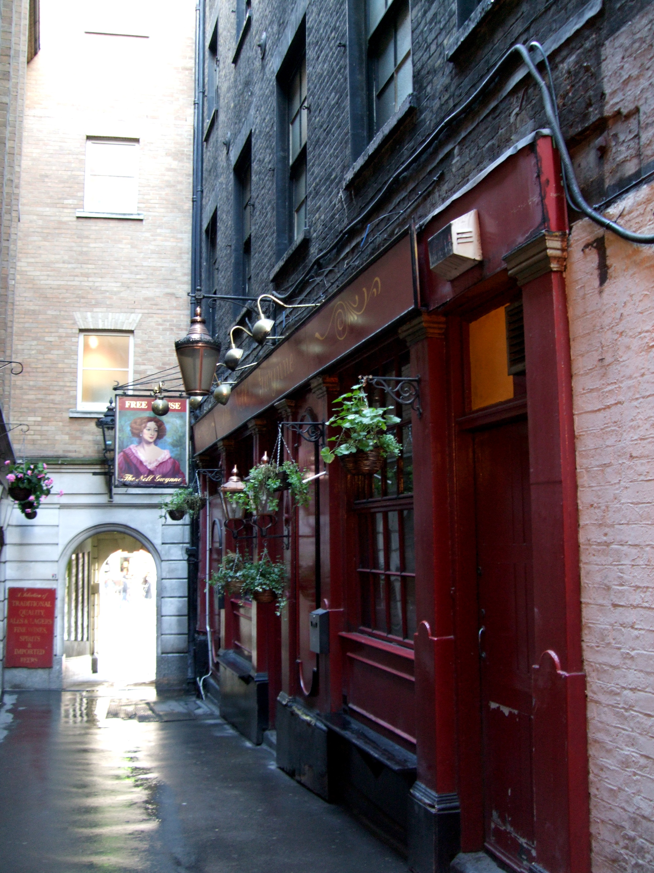 A small, not too shabby pub, down a tiny alley off the Strand. Address: 1-2 Bull Inn Court. Links: Fancyapint Beer in the Evening Qype Dead Pubs (history)